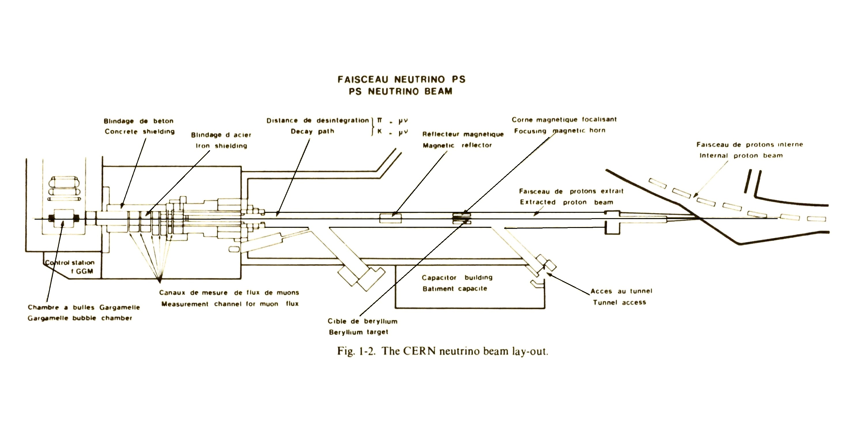 Schematics of the beamline of Gargamelle